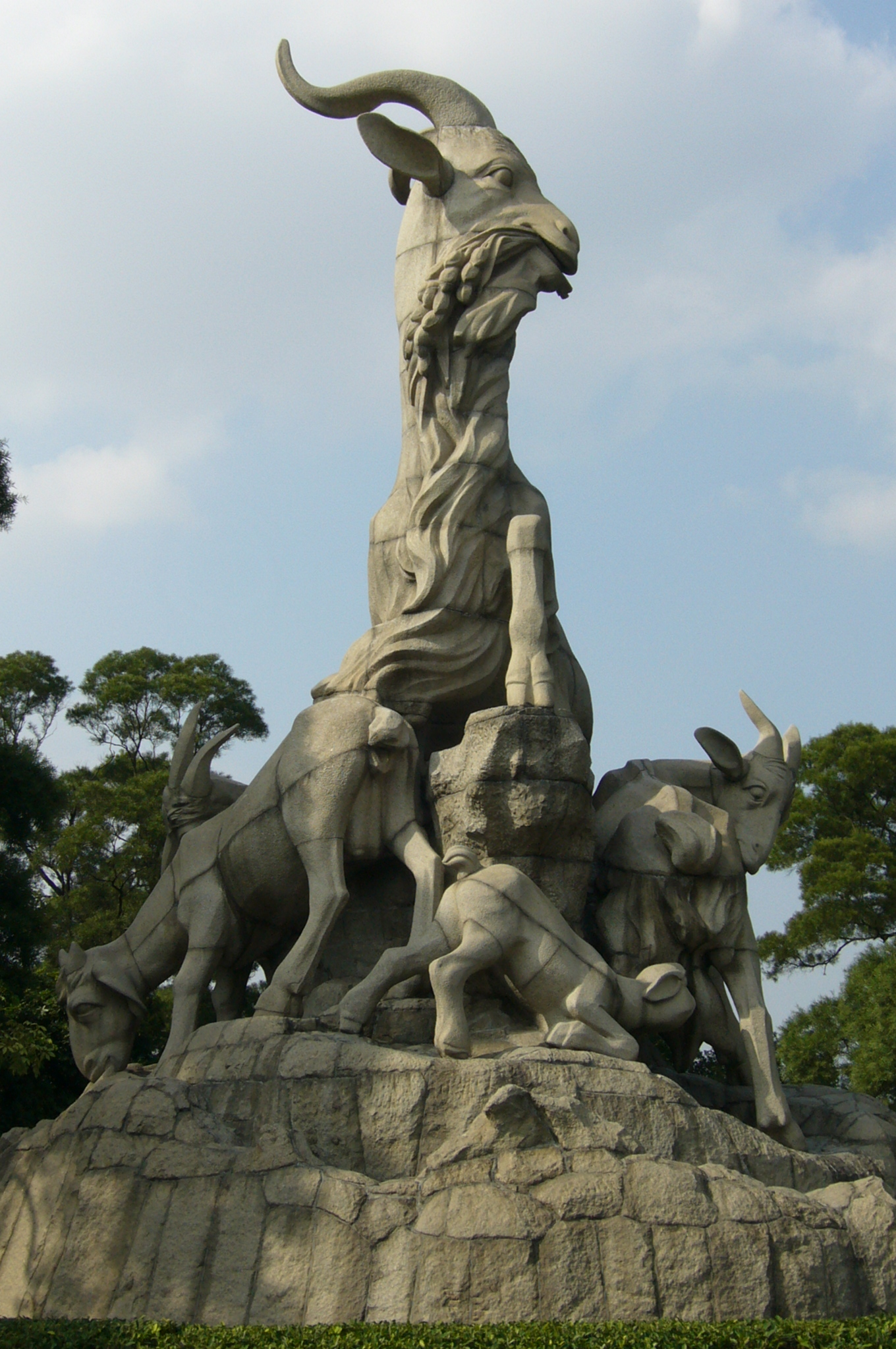 The Sculpture of the Five Rams, Guangzhou (Canton)